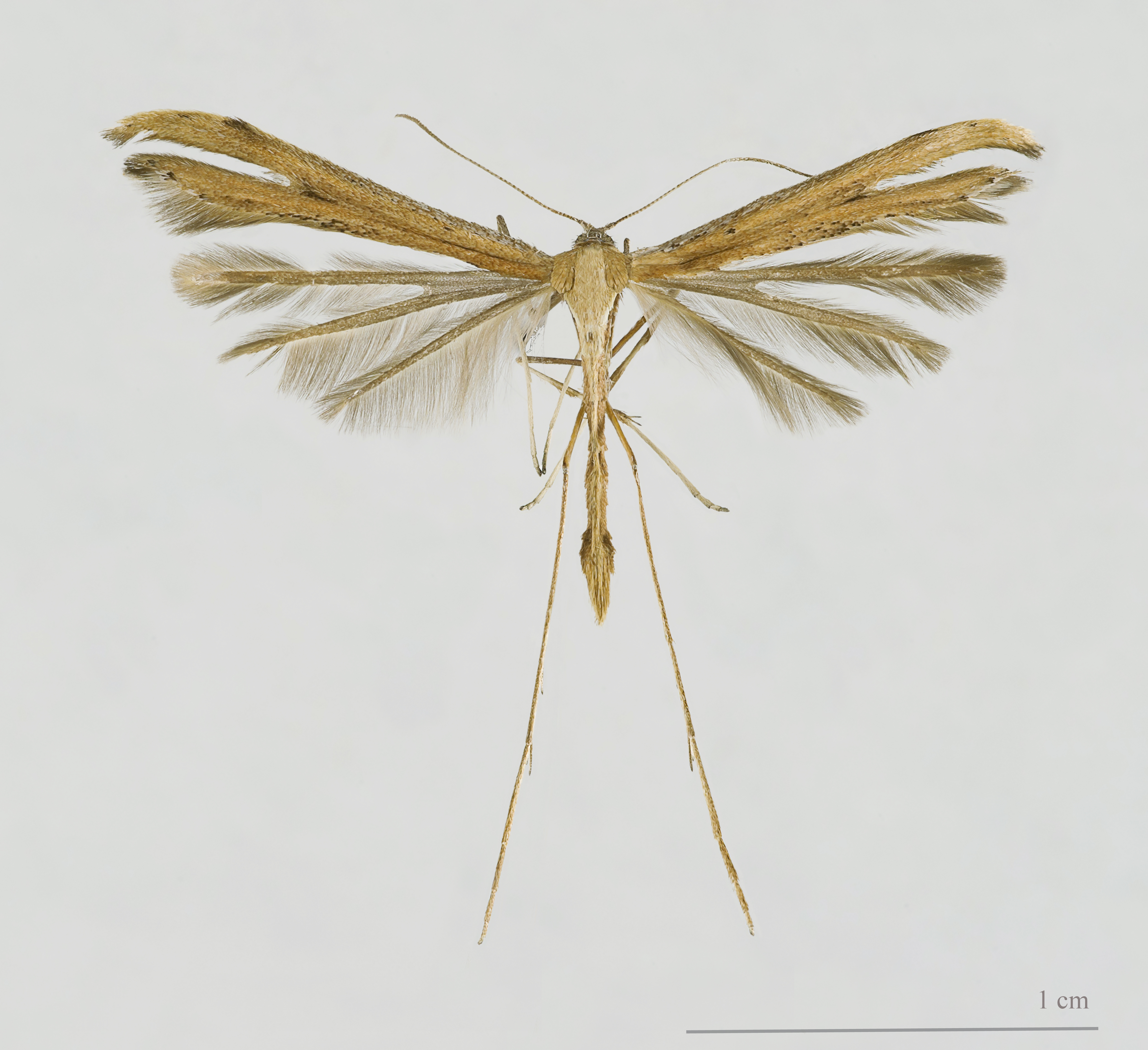 Morning-glory Plume Moth - Dorsal side Locality: Toulouse, Haute-Garonne, Midi-Pyrénées, France